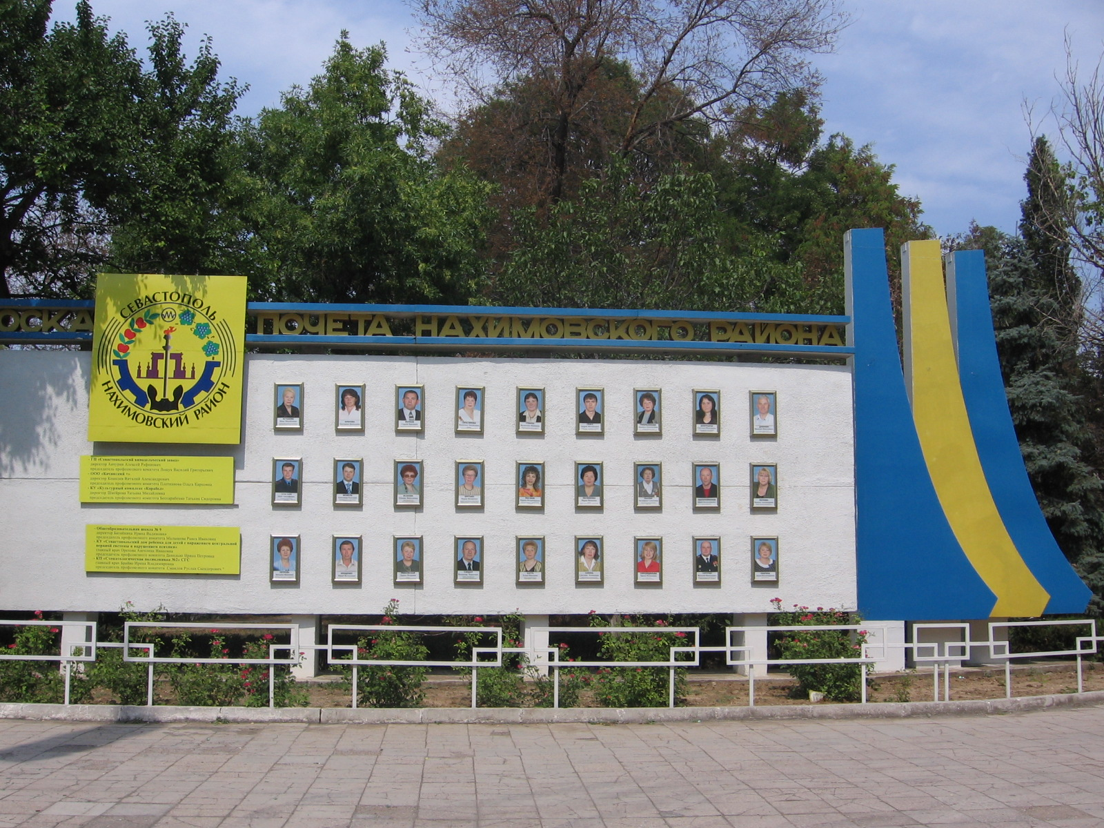 Nakhimov District of Sevastopol Honor Board. Updated annually as of 2007.